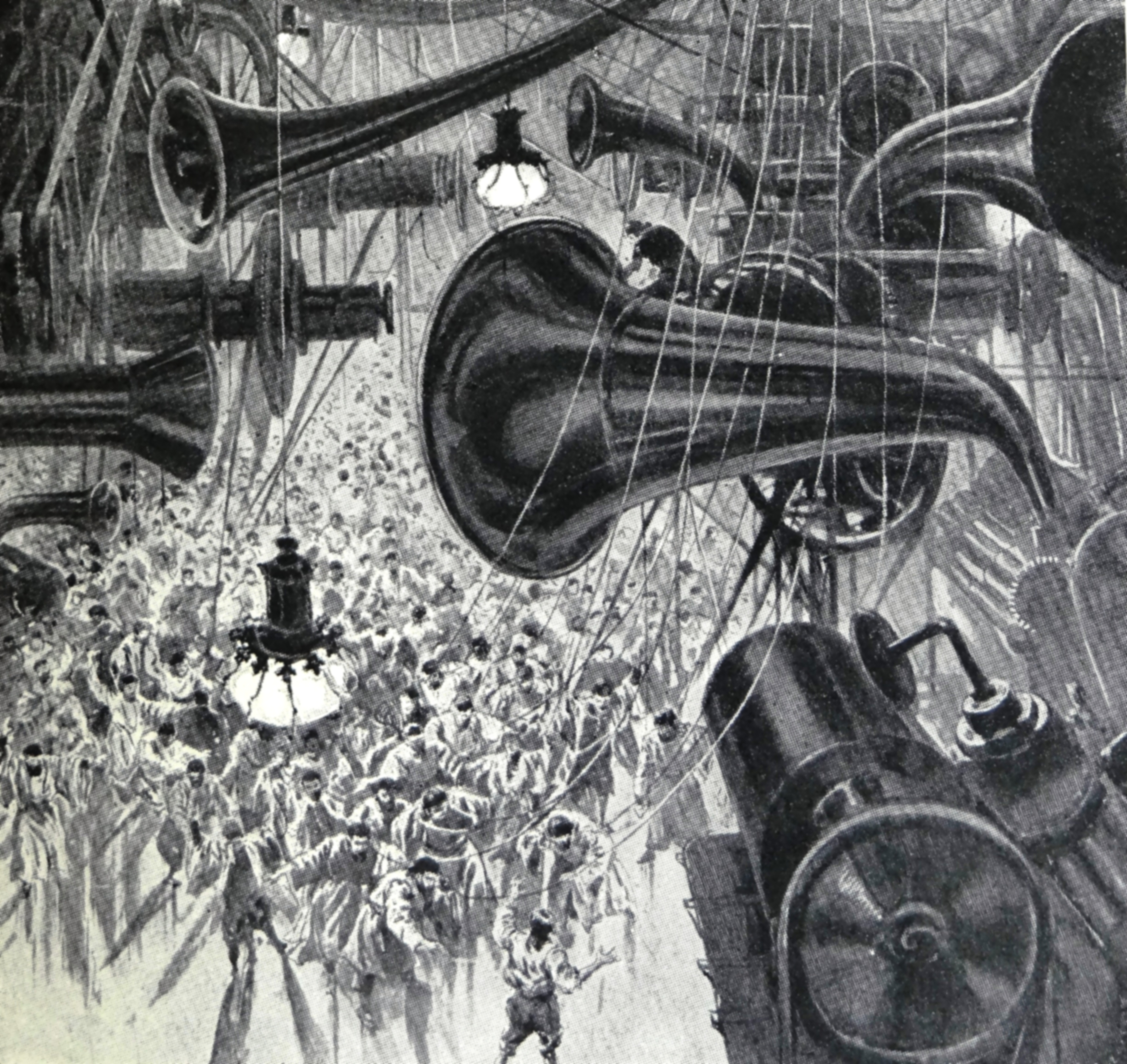 "The General Intelligence Machine." Art by H. Lanos for "When the Sleeper Wakes" by H. G. Wells (1899)